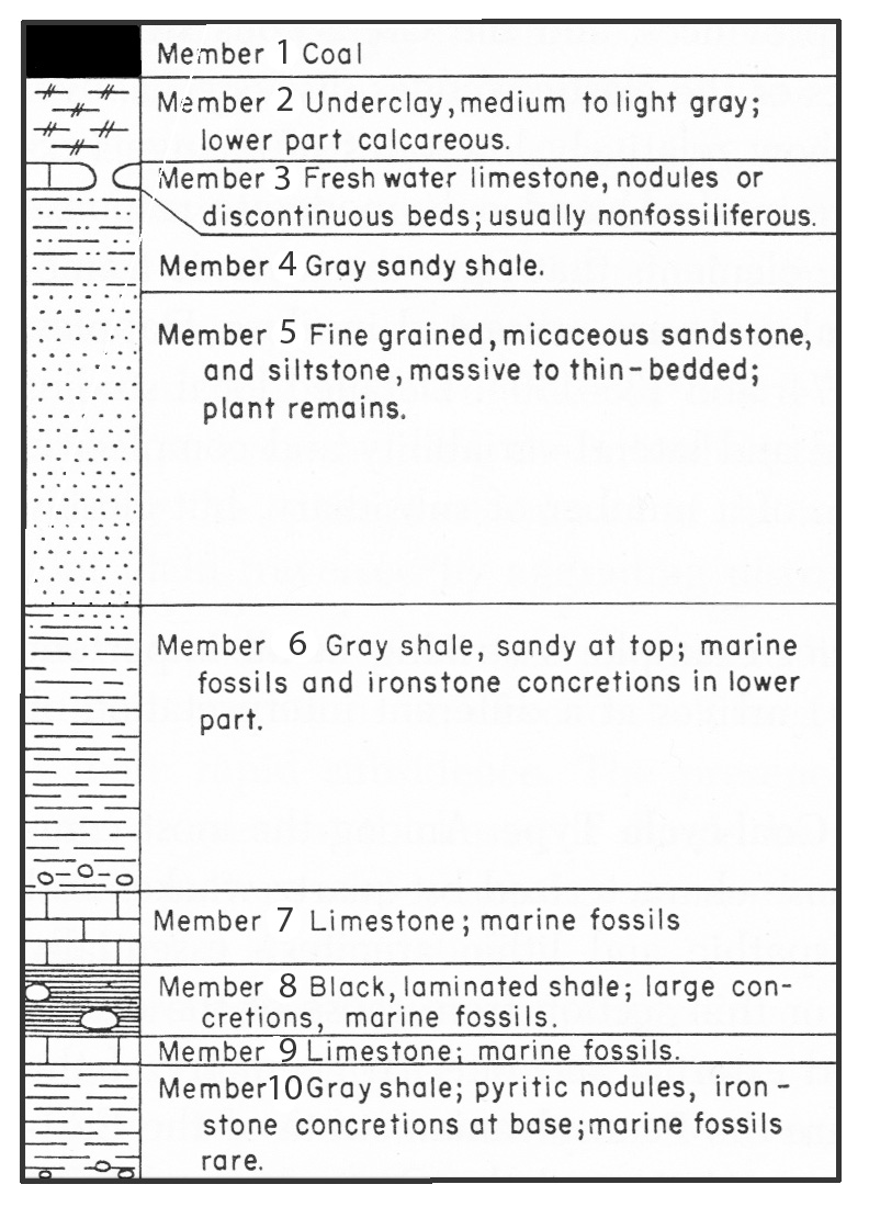 This is the typical facies sequence encountered in each Pennsylvanian cyclothem